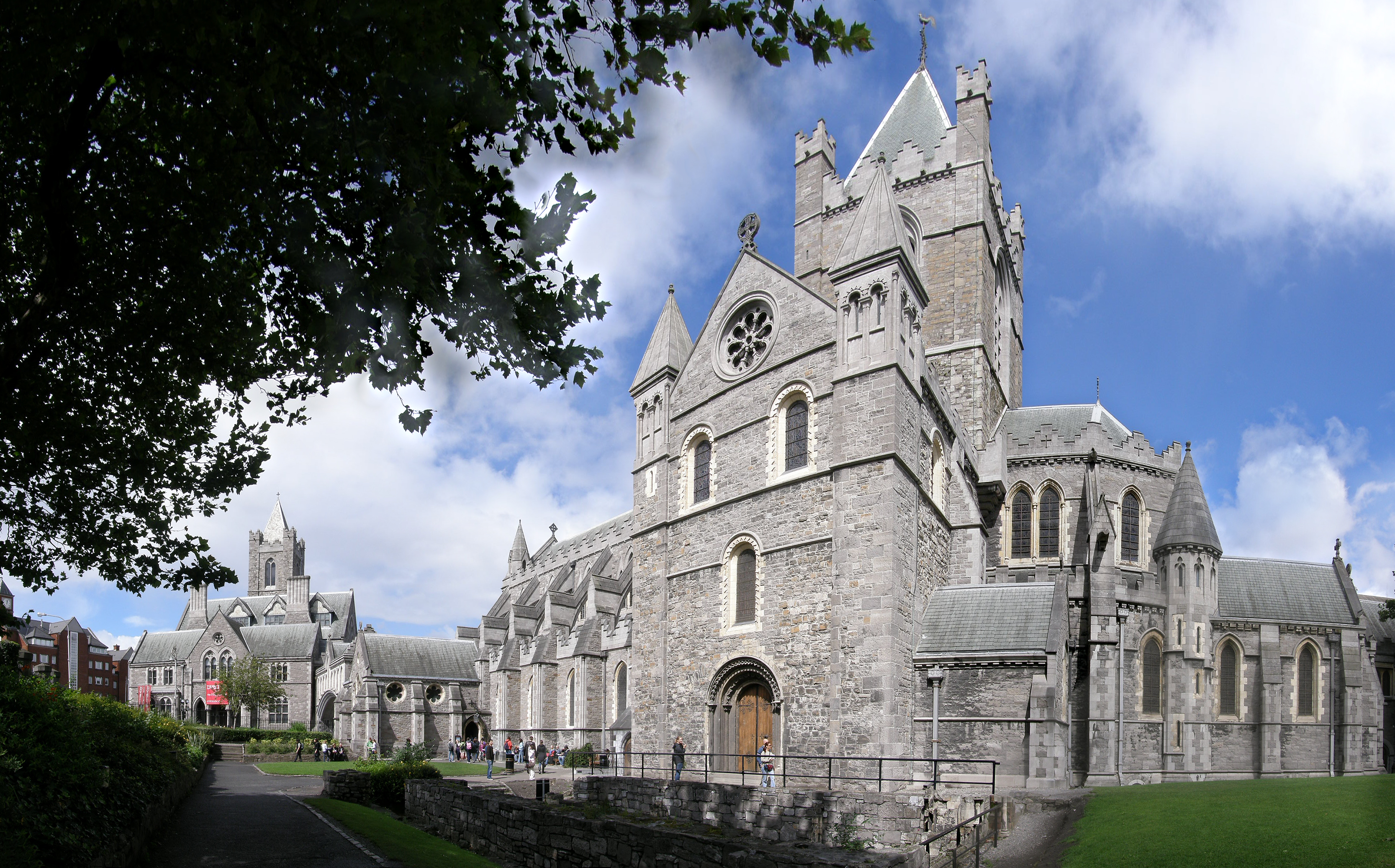 Christ Church Cathedral - Dublin, Ireland